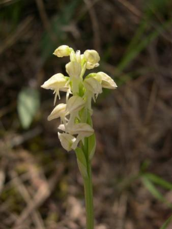 Neotinea maculata A work released per the GNU Free Documentation License by: Jorge (J.J.) Valencia- Spain